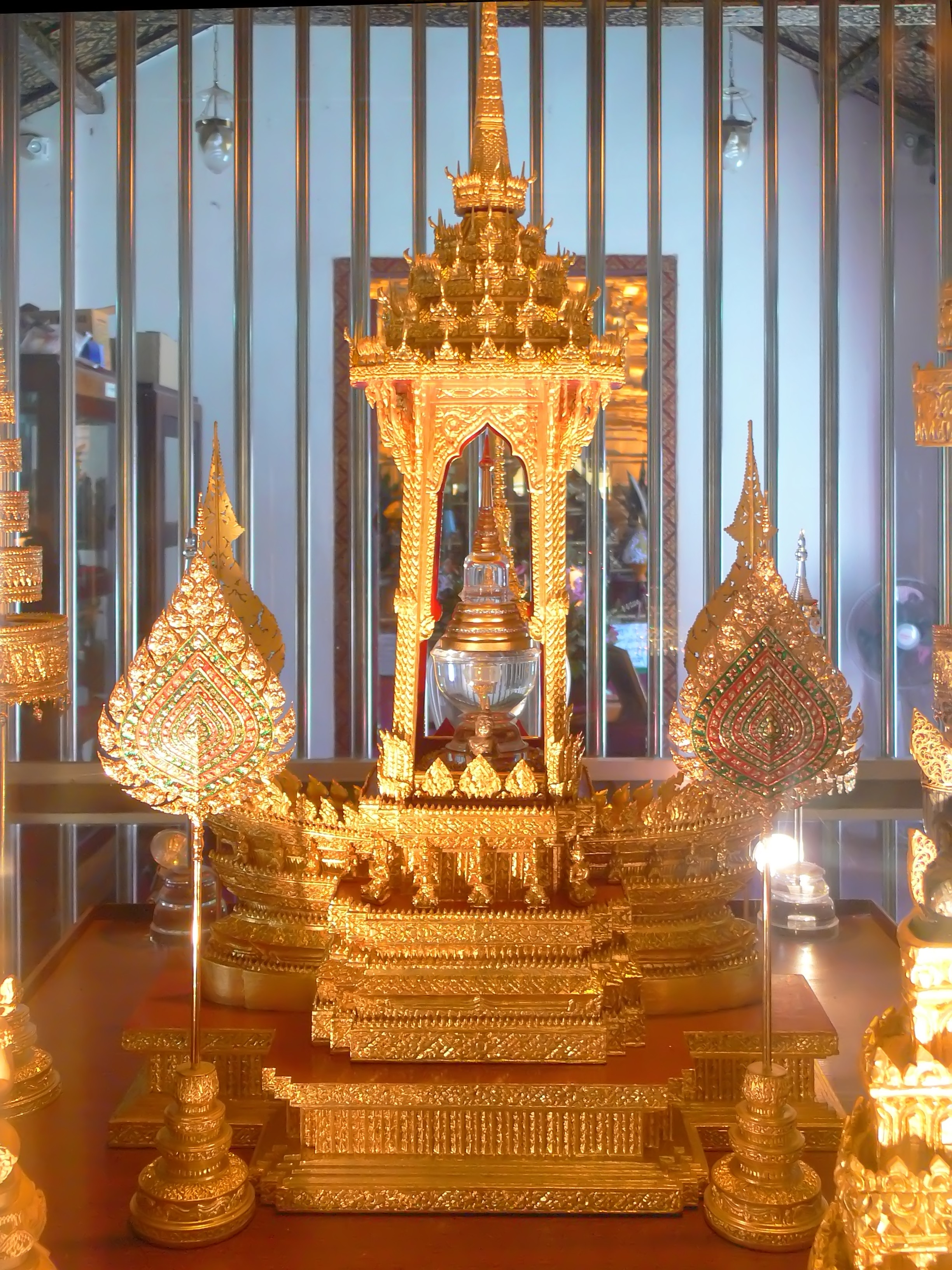 Relic in Wat Phra That Sri Chomthong.